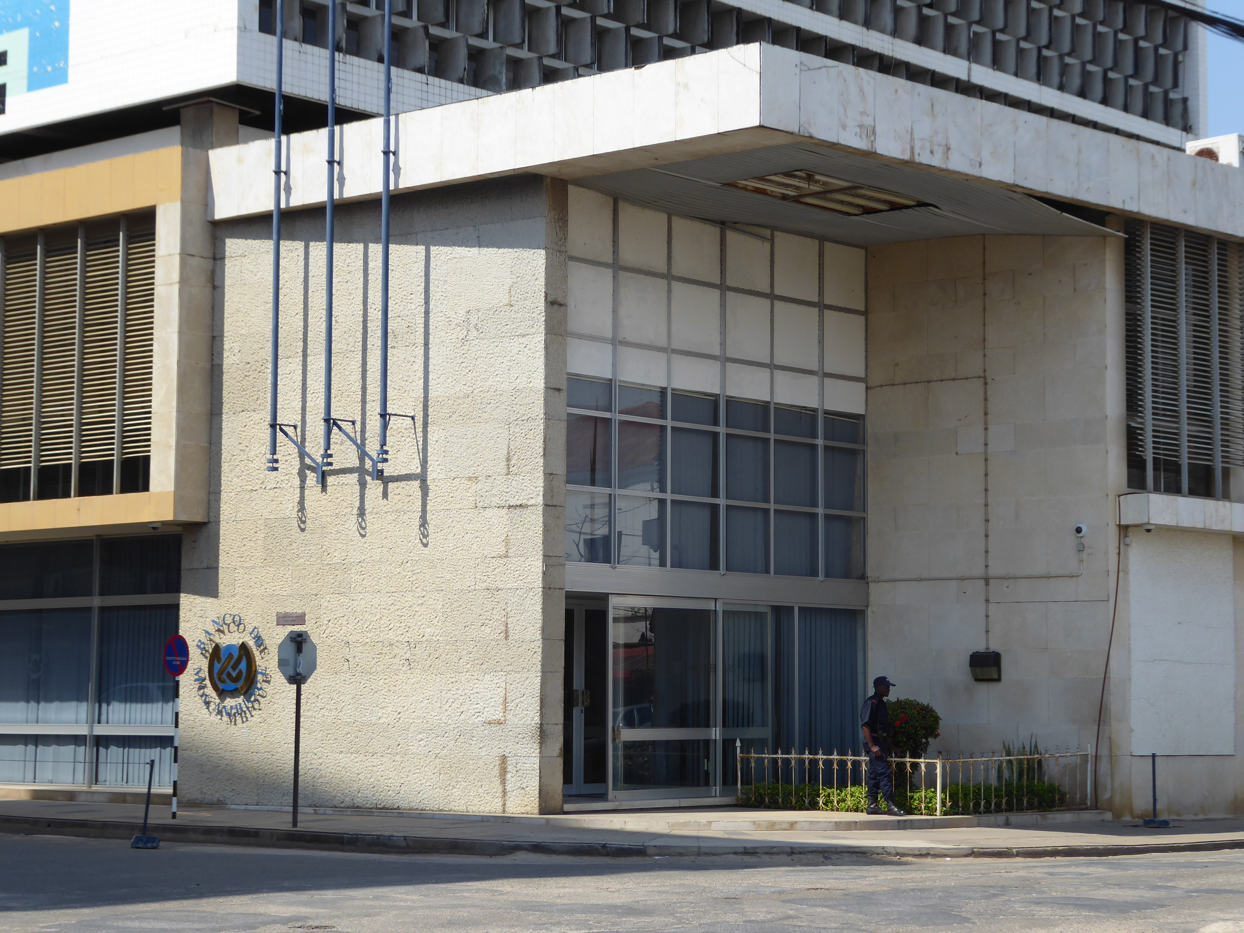 Banco de Moçambique building in Quelimane, Zambézia province, Mozambique